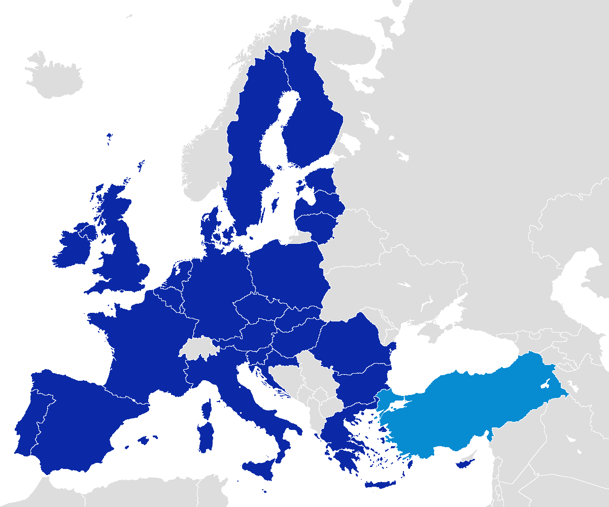 EU and Turkey Locator Map (with unrecognized states)